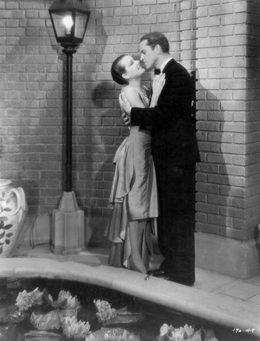 Photo of Bernice Claire and Alexander Gray from the film Spring Is Here.